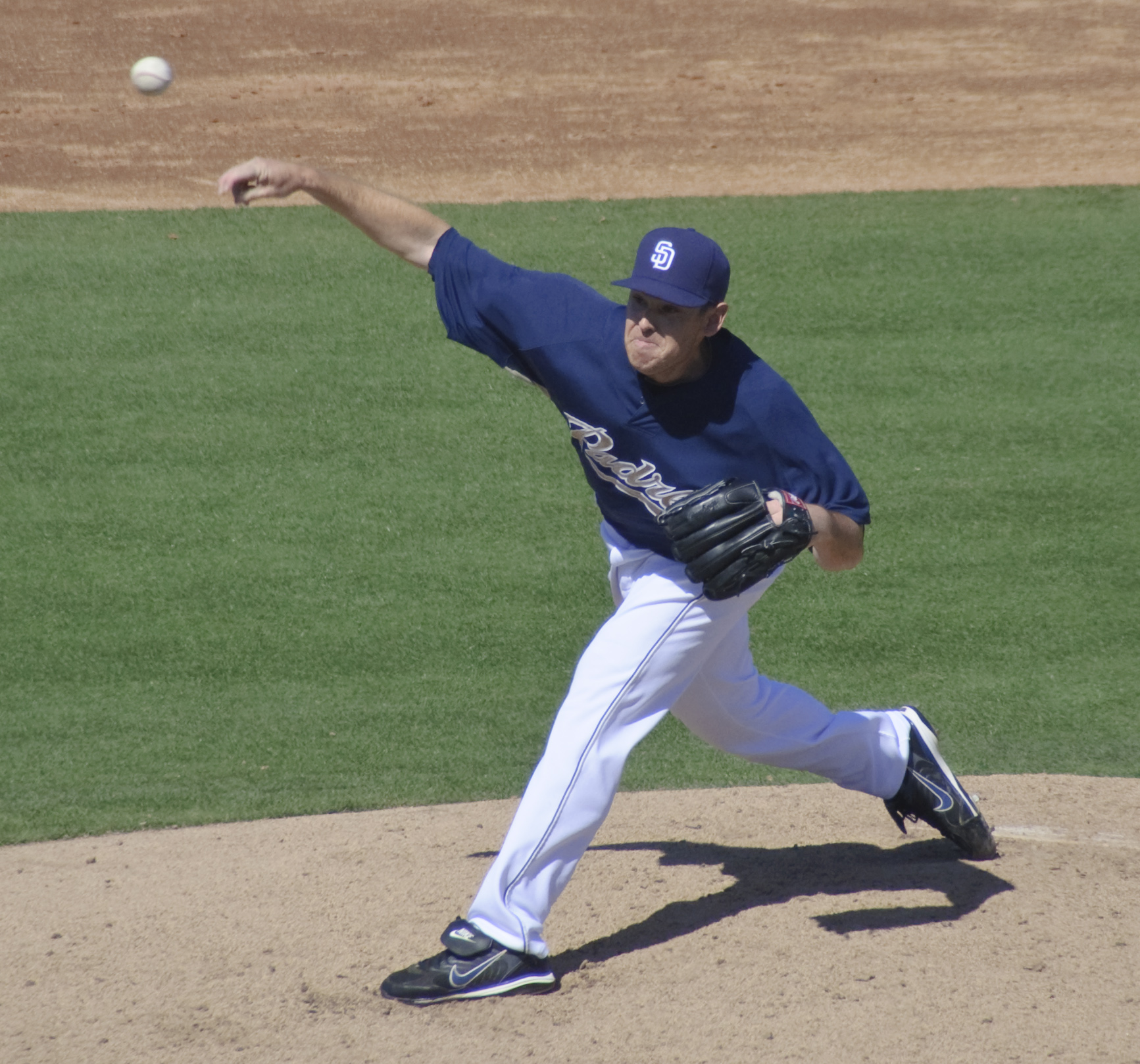 Tim Stauffer in 2010 spring training.